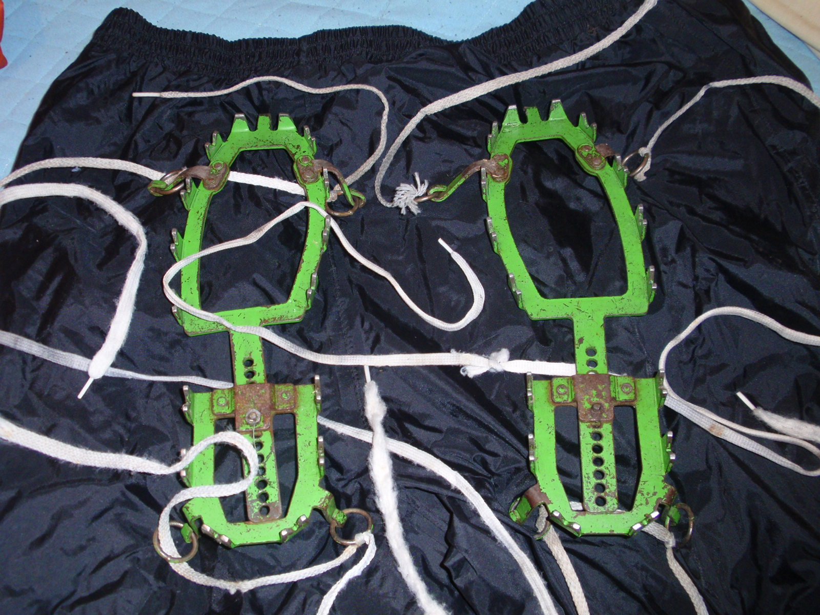 Walking crampons